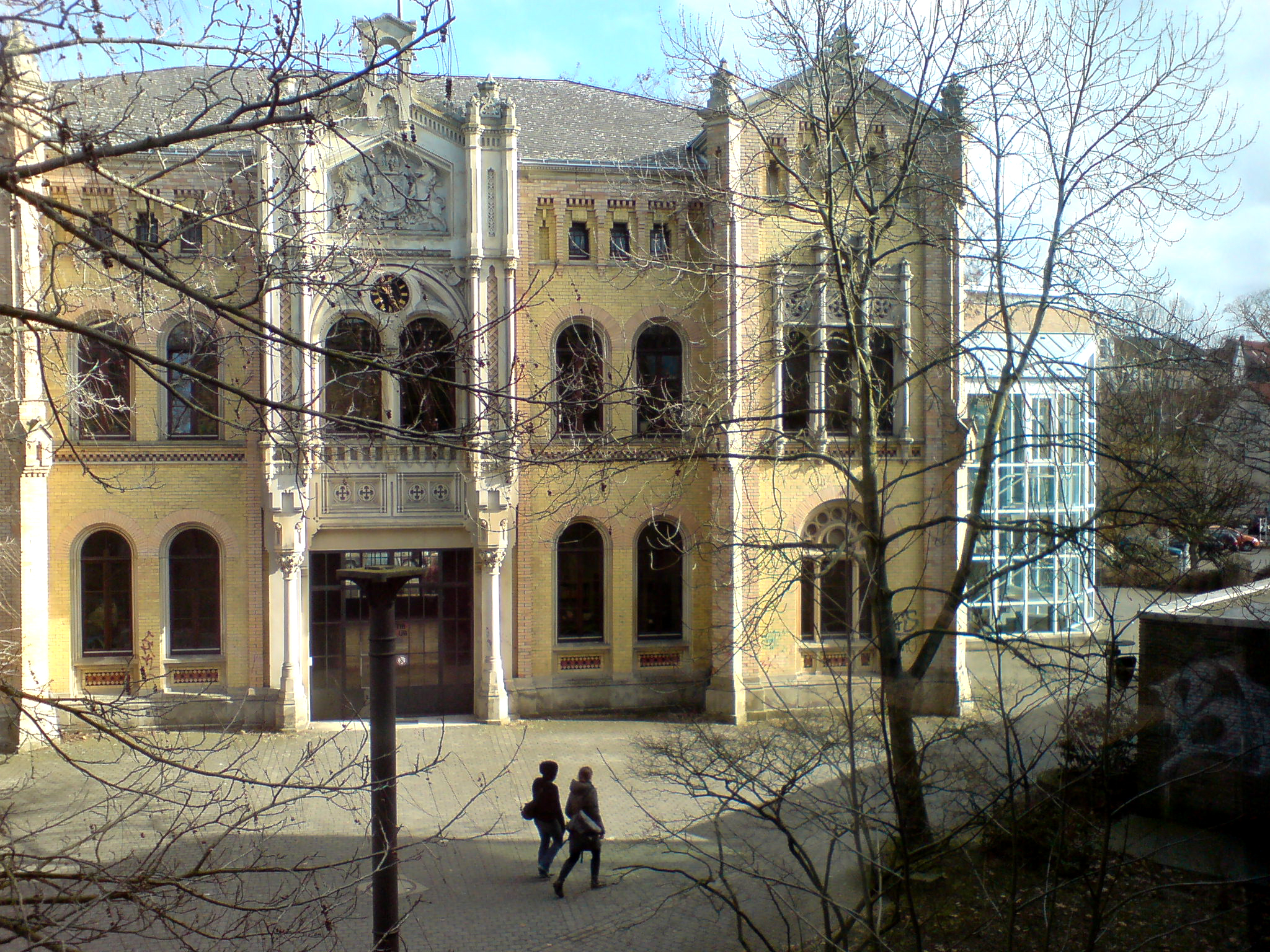 The Marstall beim Welfenschloss now Technische Informationsbibliothek Hannover